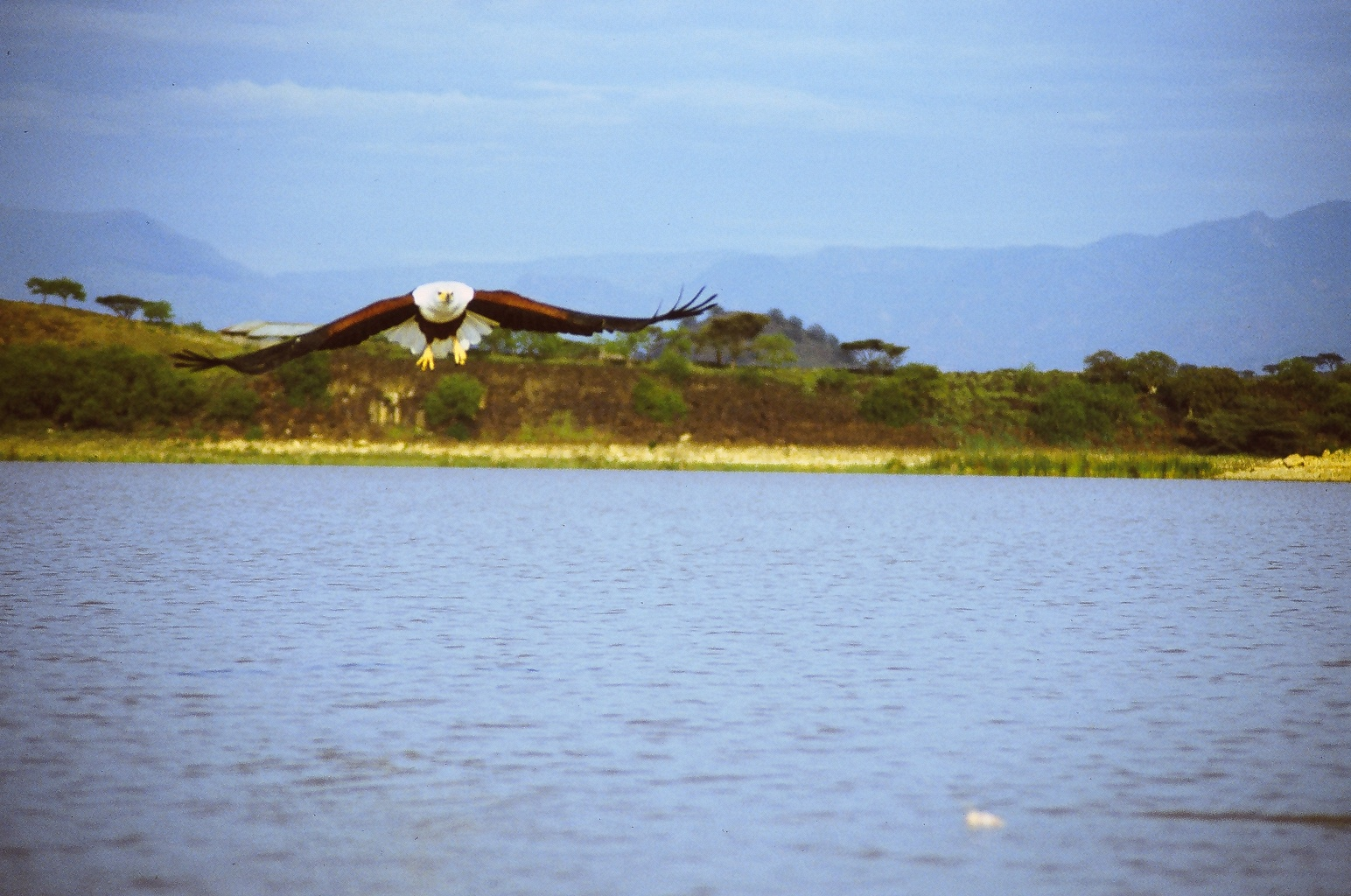 An African fish eagle flying low towards camera, Lake Baringo, Kenya